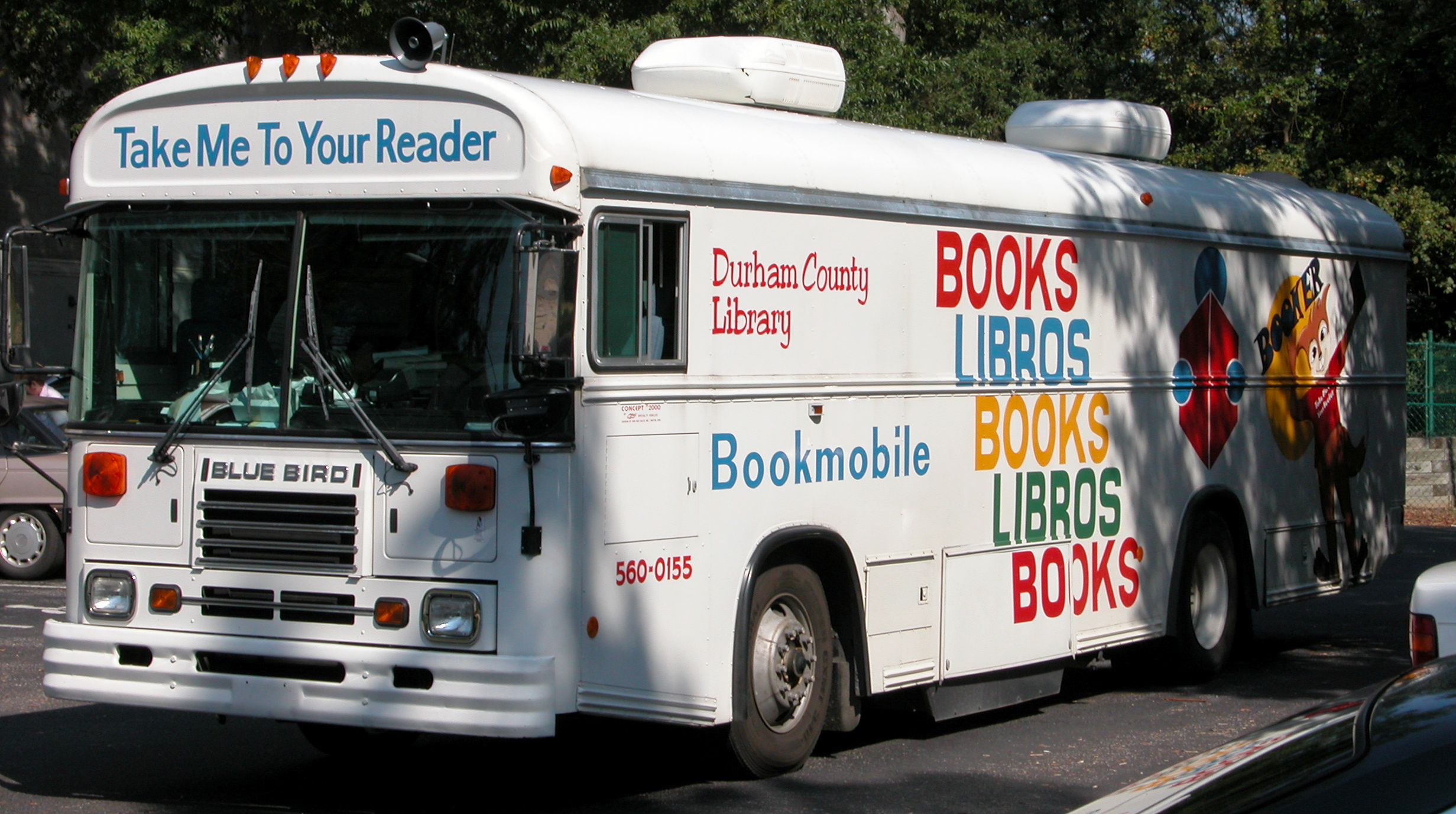 Durham County Library Bookmobile in Durham, North Carolina.